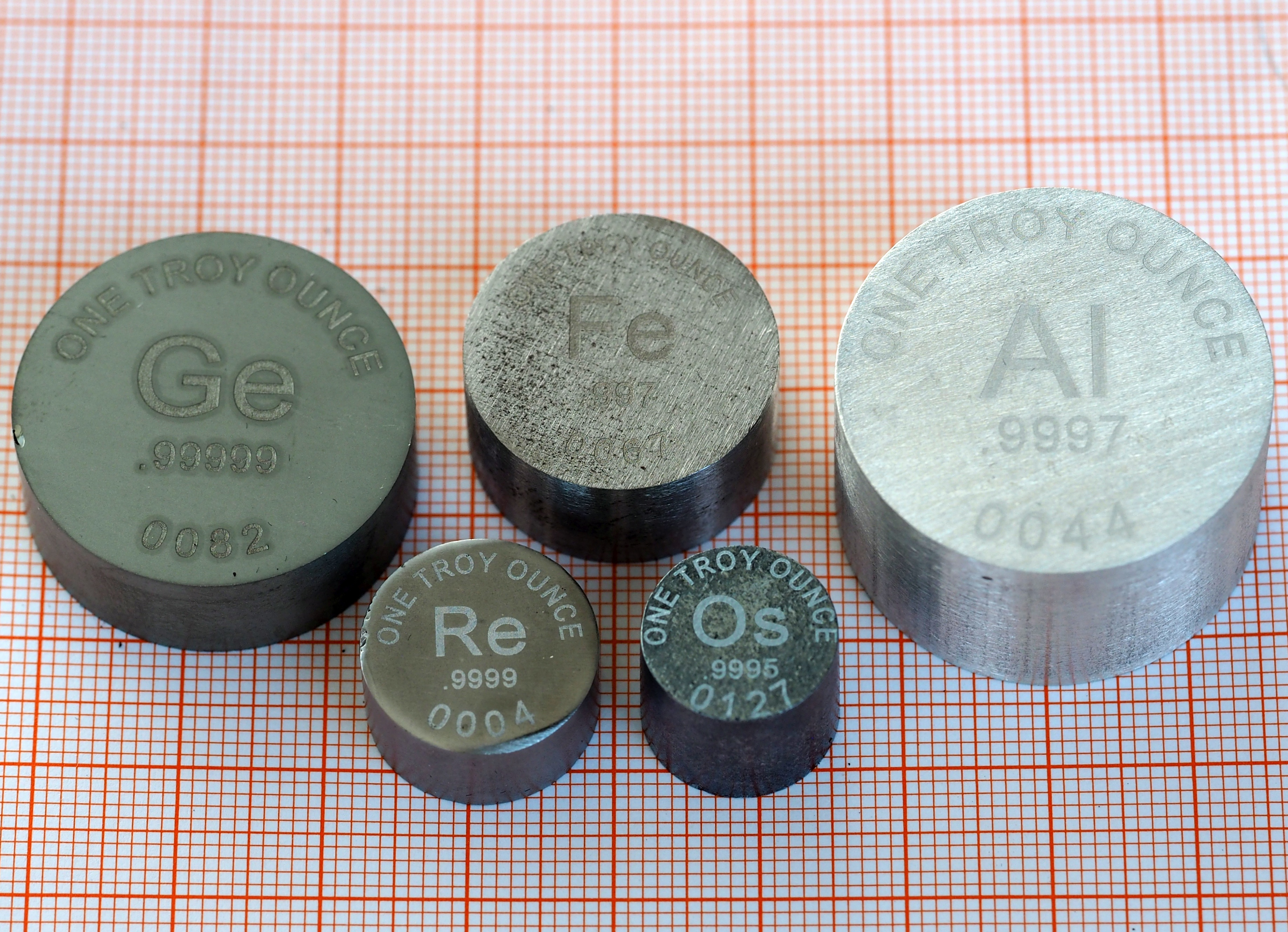 Ingots of Germanium, Iron, Aluminium, Rhenium, and Osmium, one troy ounce each, on millimeter paper